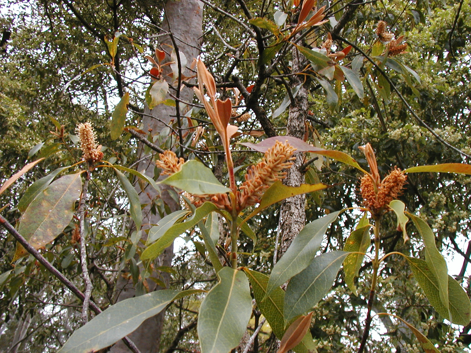 Xylomelum pyriforme flowers, Stotts Reserve, Bexley NSW